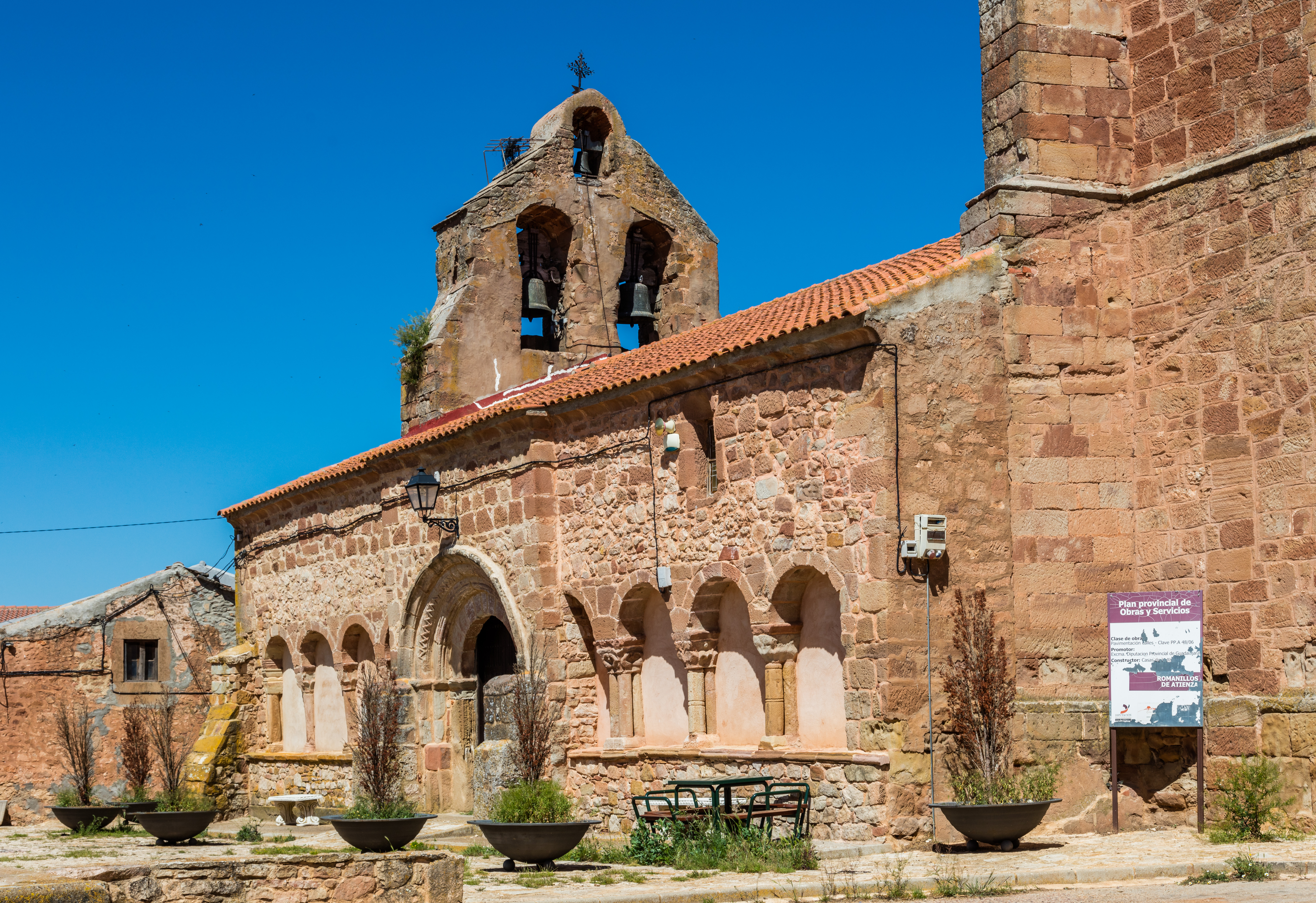 Church of St Andrés, Romanillos de Atienza, Guadalajara, Spain